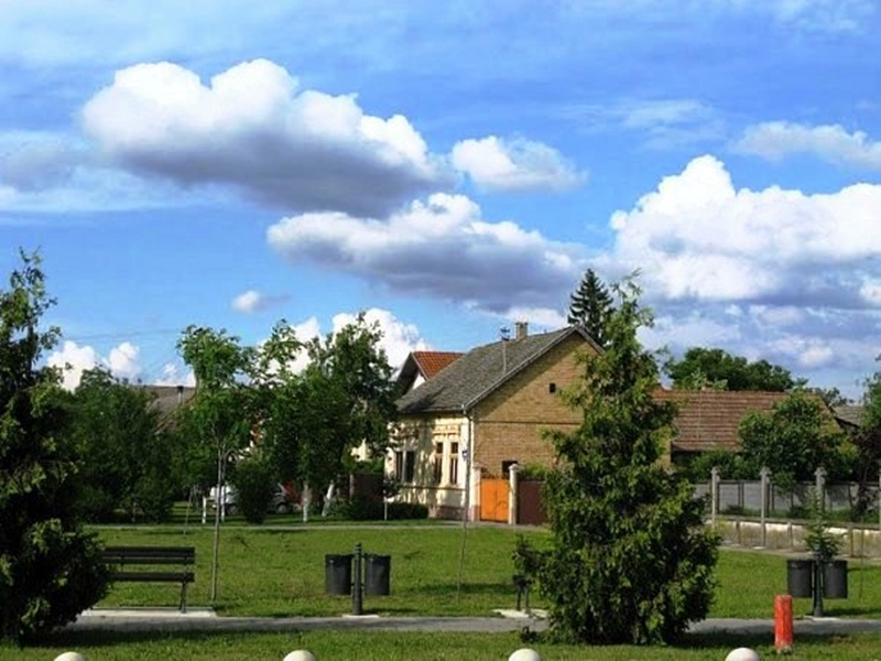 Center Kisač